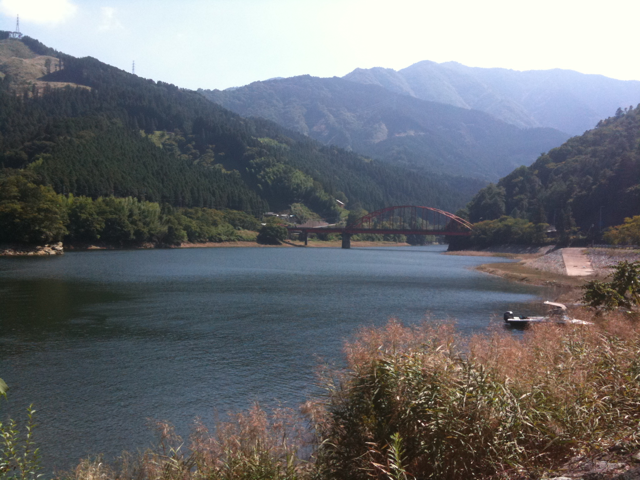 Kinshakohan Park in Shikokuchuo City, Ehime Prefecture, Japan